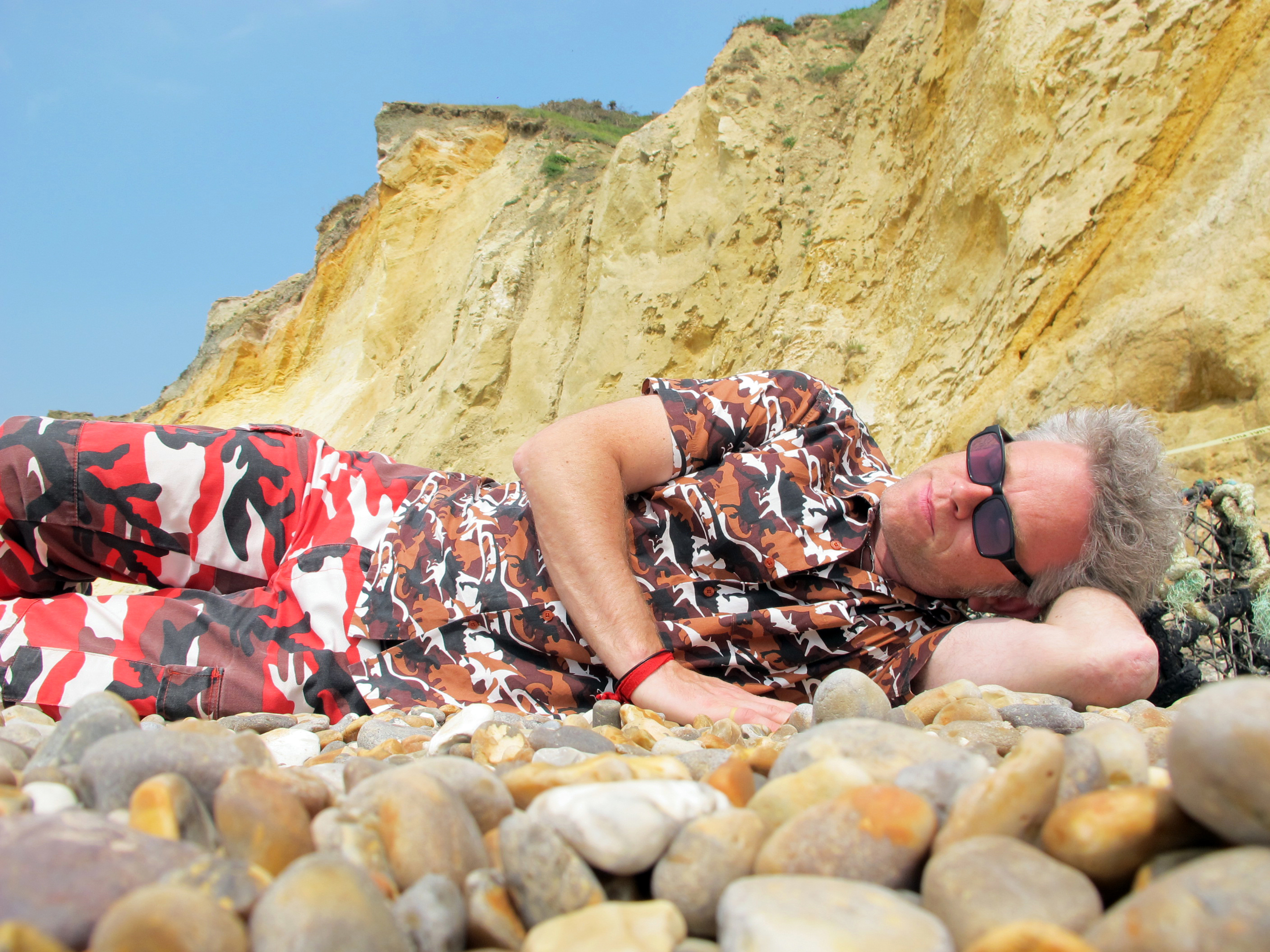 Janek on beach